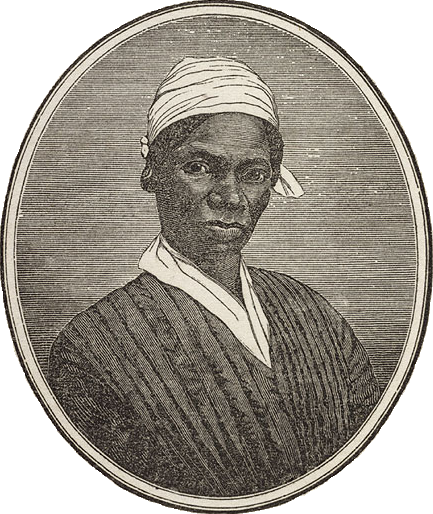 Portrait of Sojourner Truth. From: Olive Gilbert. Narrative of Sojourner Truth: A Northern slave, Emancipated from Bodily Servitude by the State of New York, in 1828. Boston: Printed for the author, 1850.